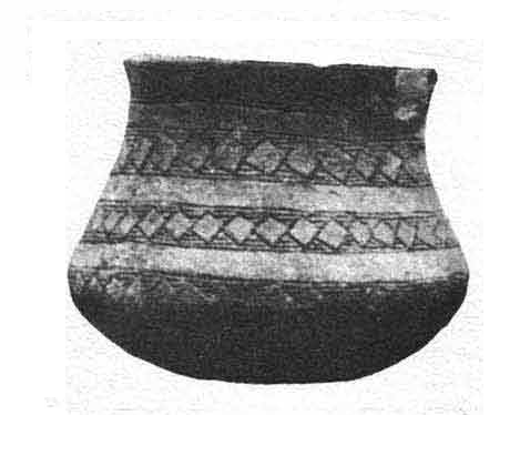 Bell Beaker, Necropolis of Anghelu Ruju SS